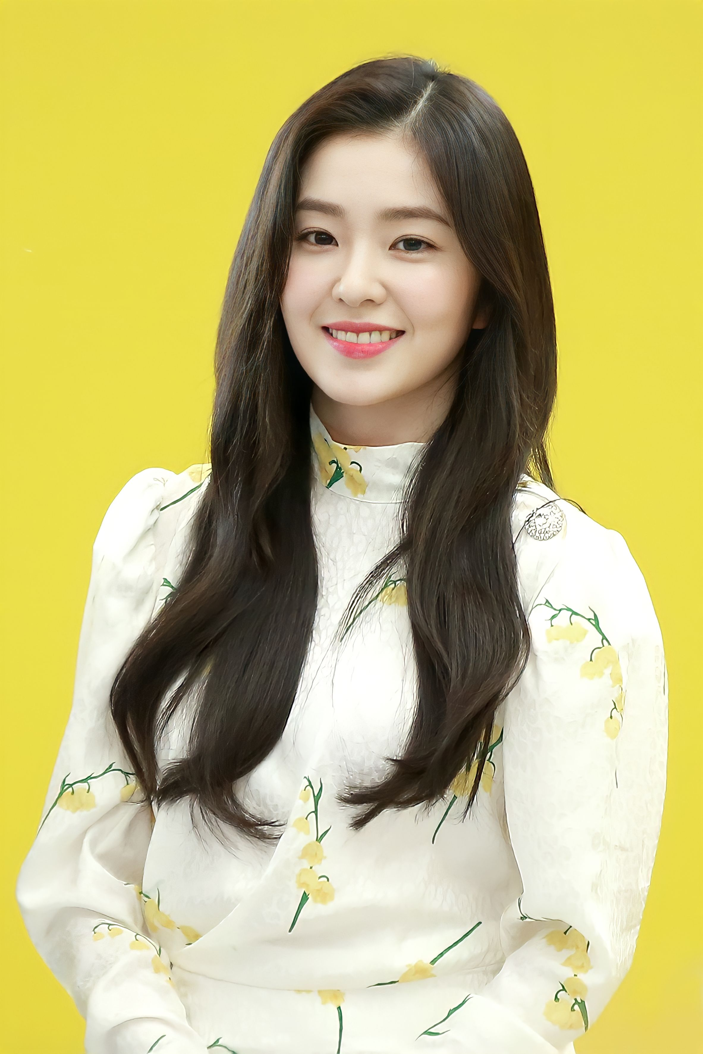 Irene at a fansigning event on April 13, 2019.